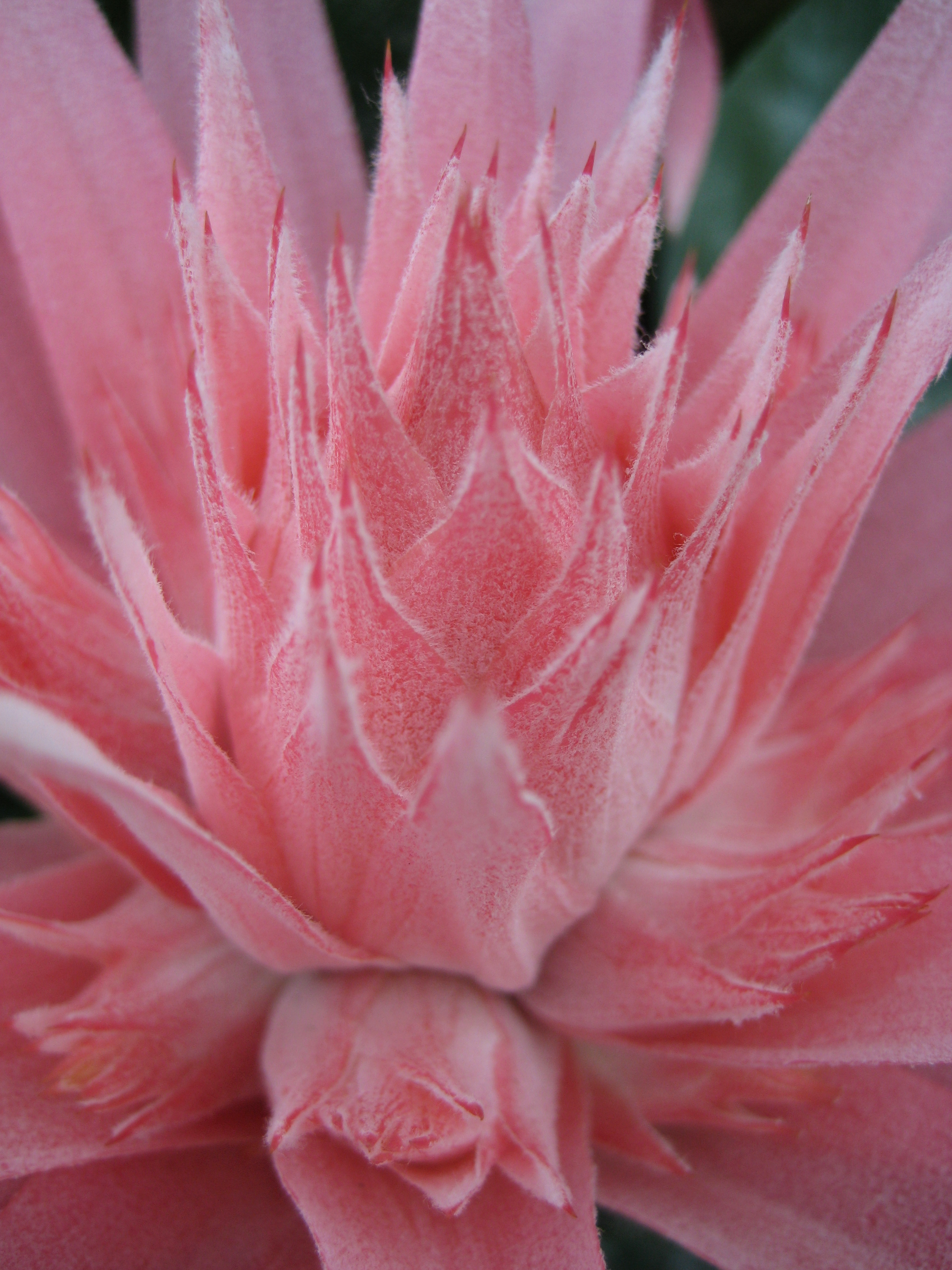 Aechmea fasciata